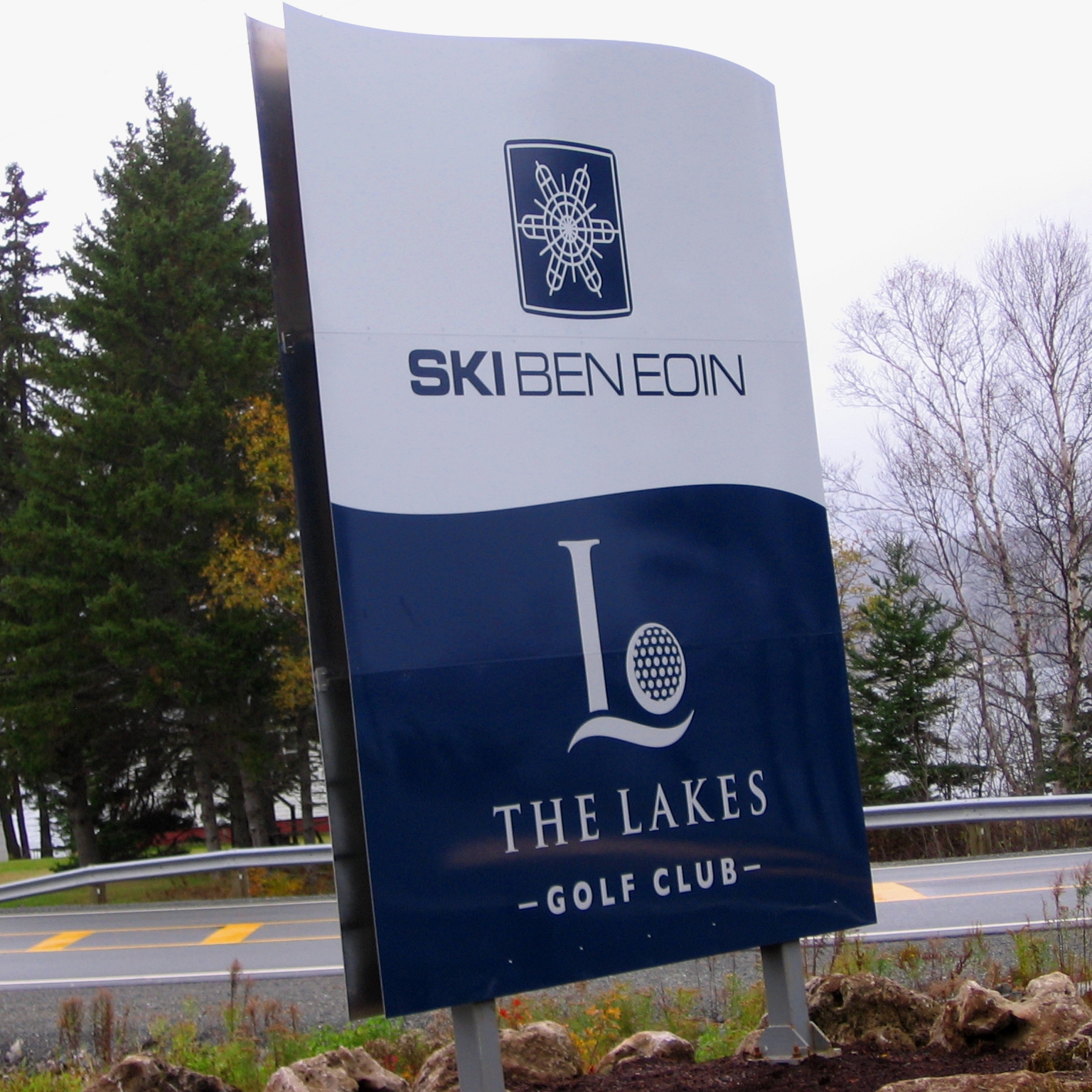 Entry sign for Ben Eoin ski and golf resort, Cape Breton Island, Nova Scotia, Canada